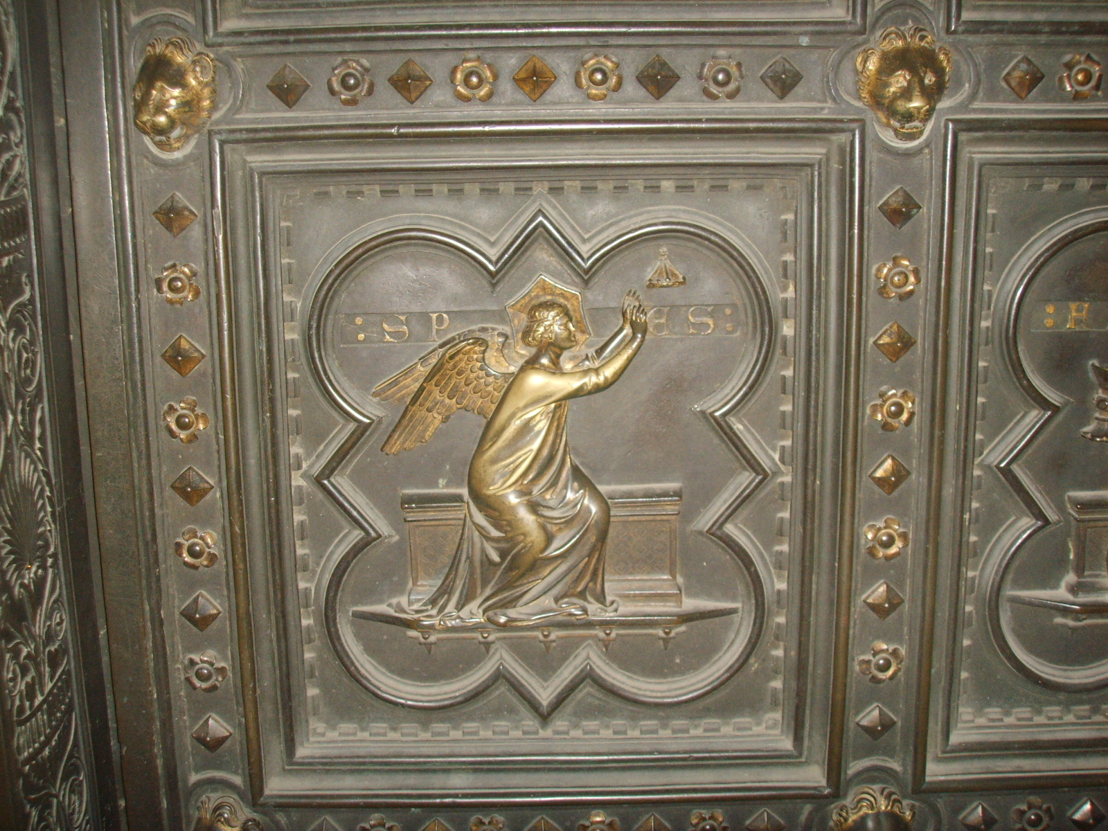 south door of the Florence Baptistery by Andrea Pisano